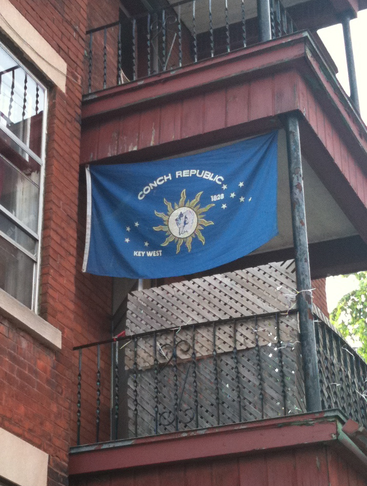 The flag of the Conch Republic flying on a balcony in Ottawa, Canada.